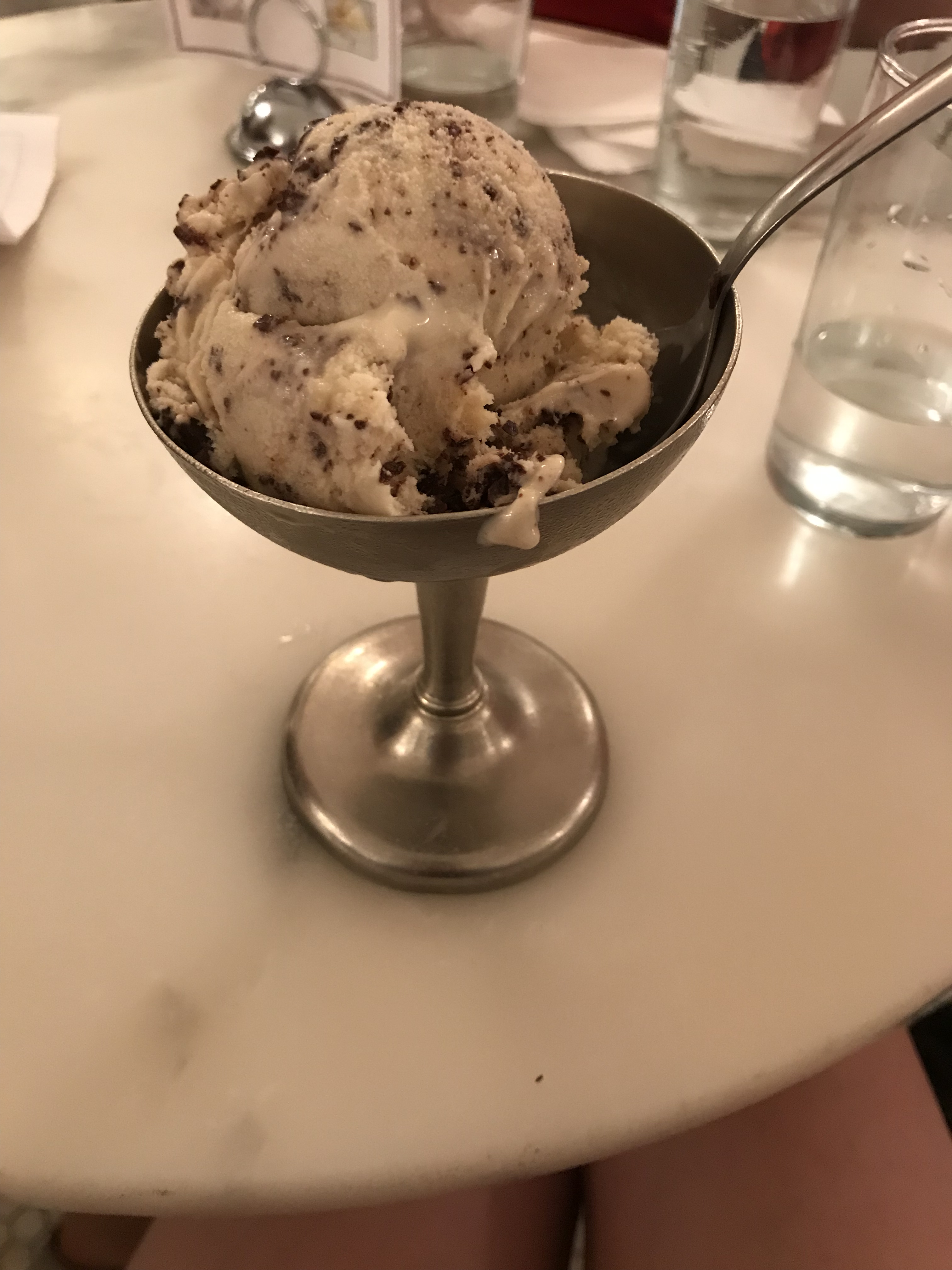 Banana chocolate chip ice cream served at Aglamesis Bro's ice cream parlor in Oakley, Cincinnati